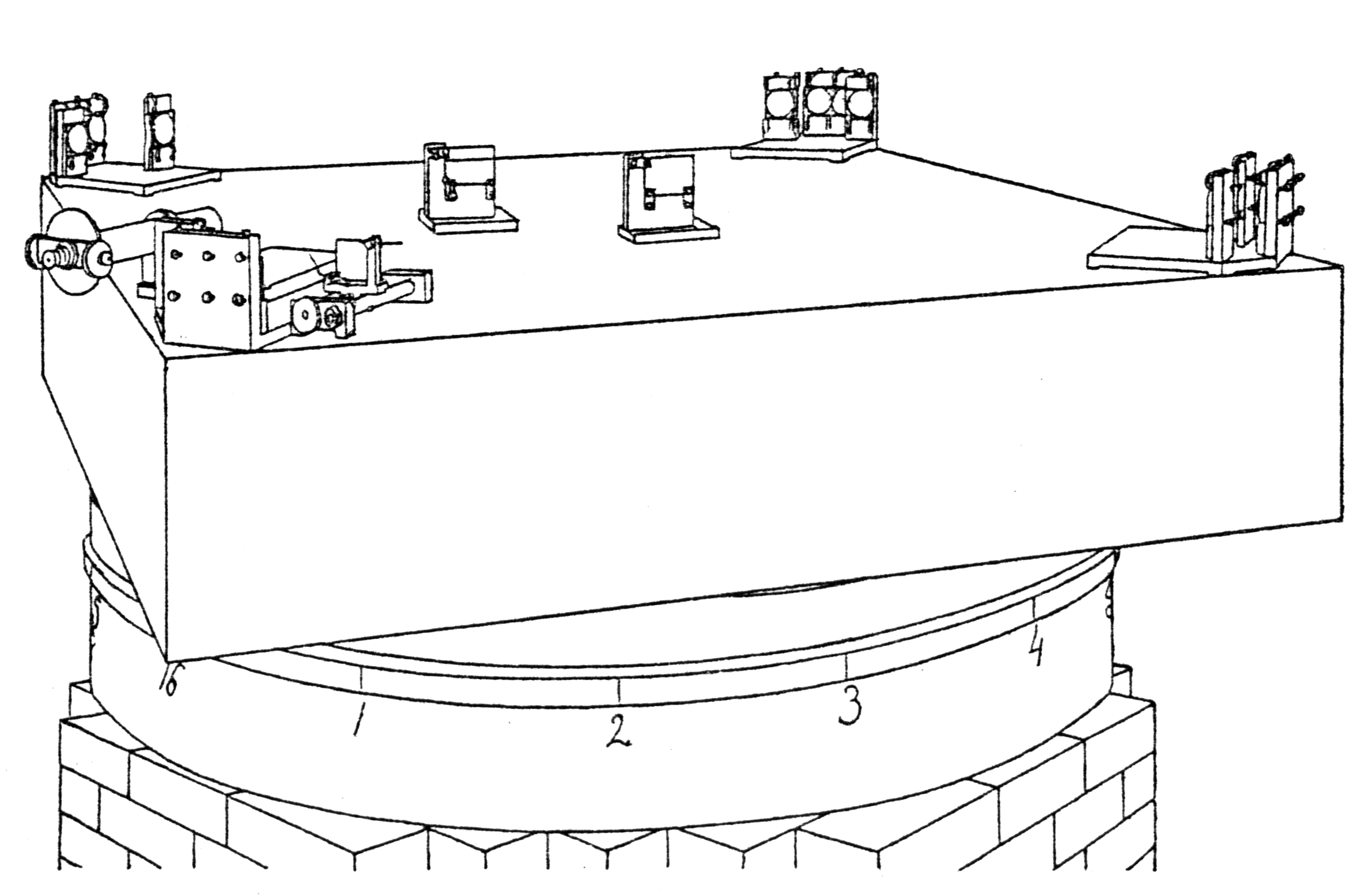 Fig. 3 from "On the Relative Motion of the Earth and the Luminiferous Ether".